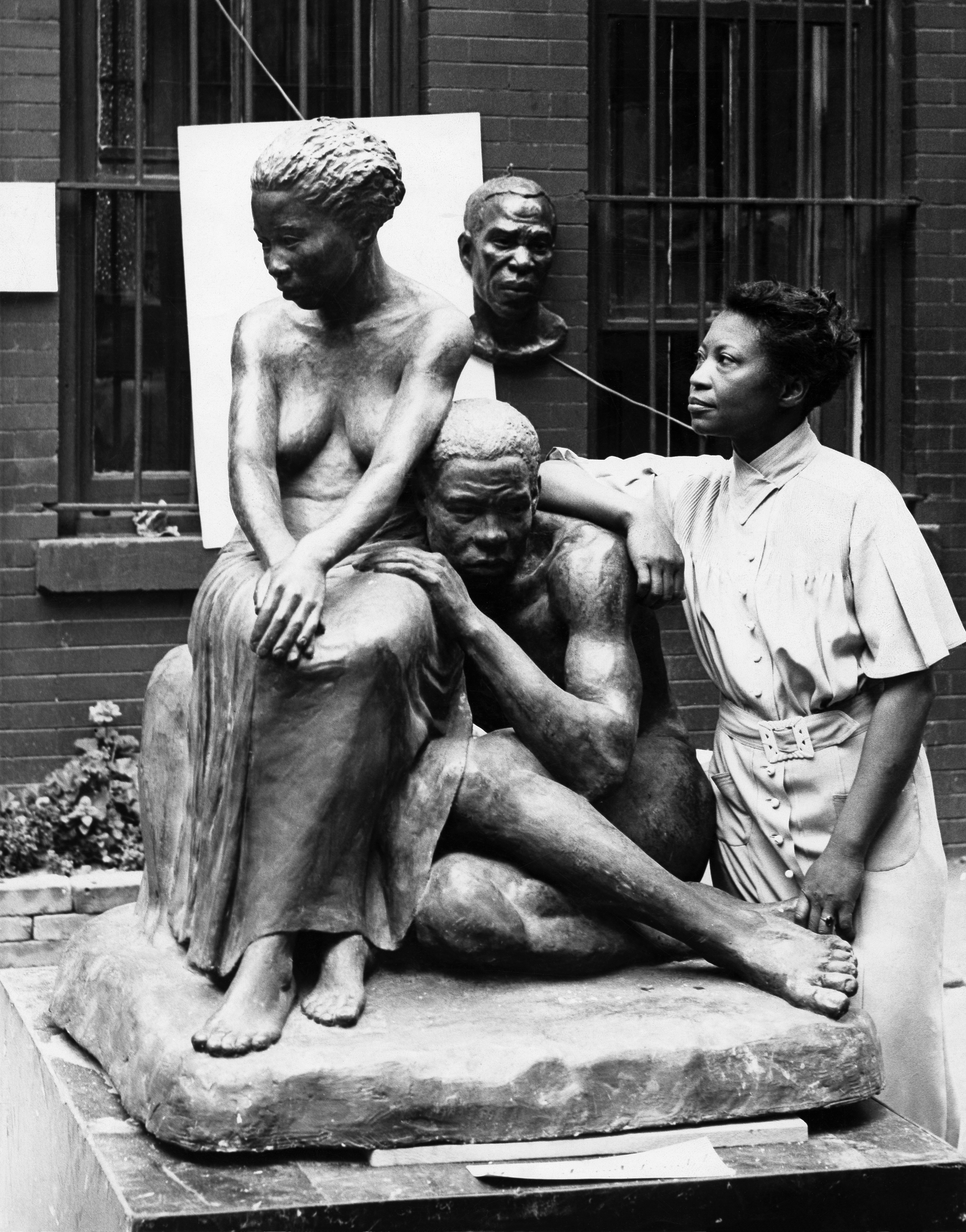 Savage posing with her sculpture. Identification on verso (handwritten and stamped): Art Service Project; 137 E. 57th Street, New York City; Location: 137th St. and Edgecombe Ave.; DAte: 6/10; Negative No. 1060I; Photographer: Herman.Identification on accompanying note (typewritten): Augusta Savage